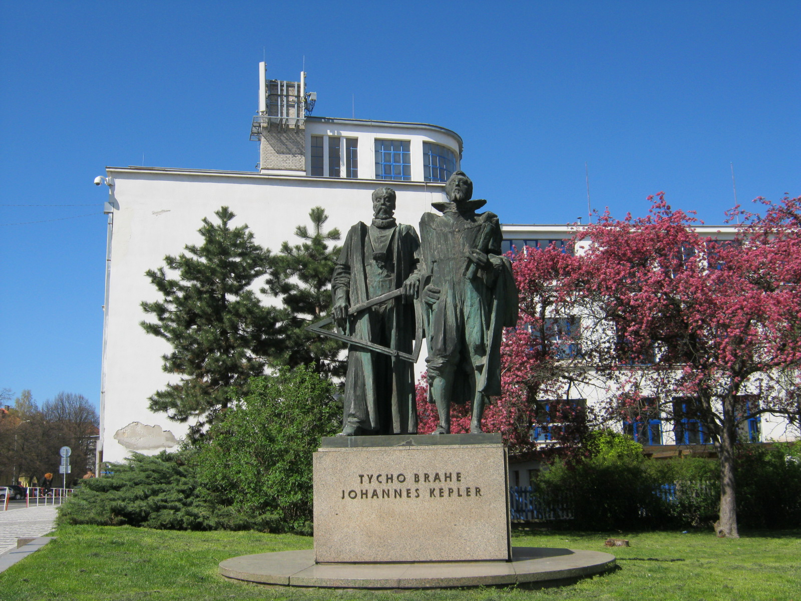 statue-monument Kepler de Brahe Prague